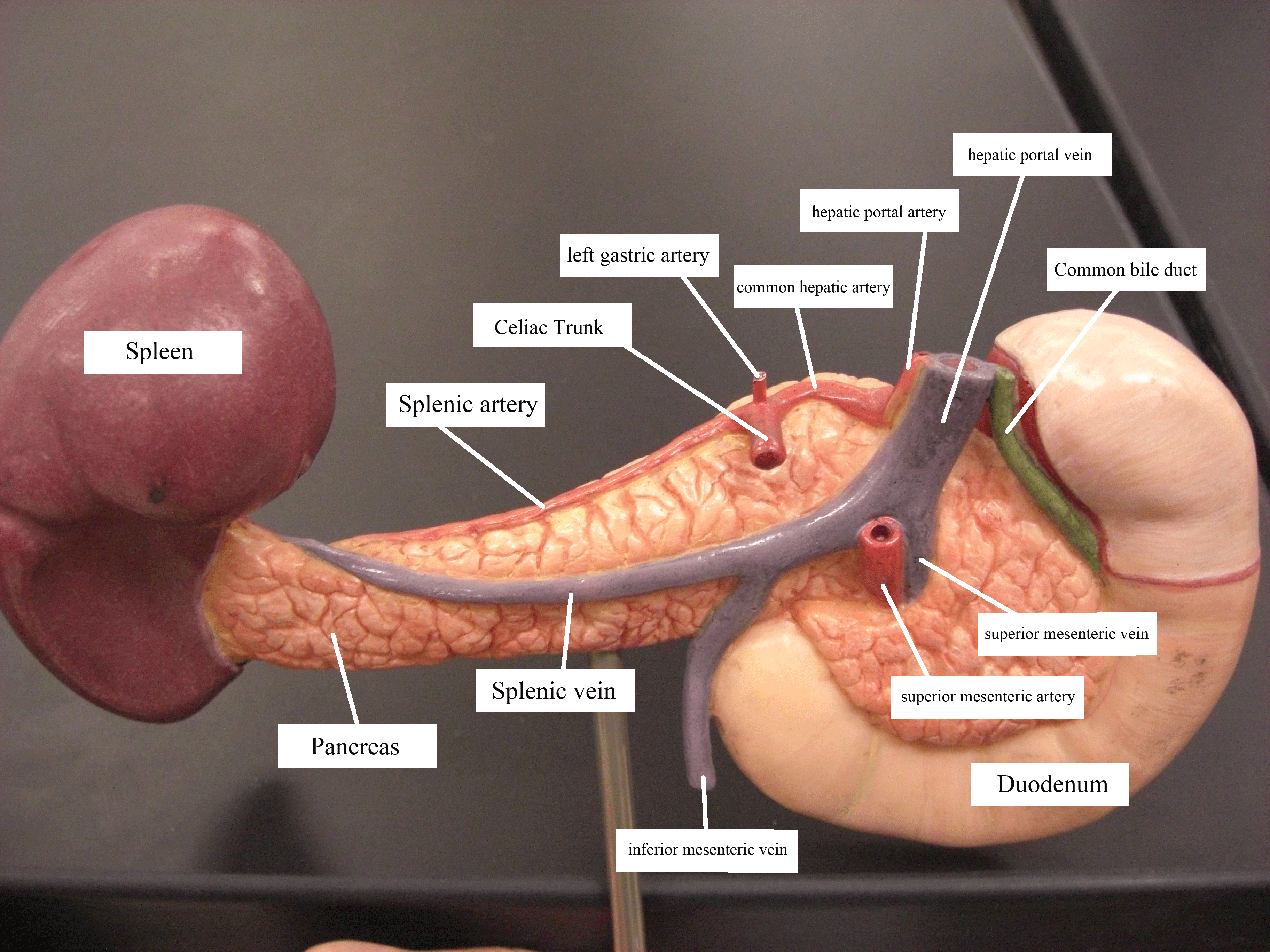 Pancreas/splenic arteries and veins. Posterior view